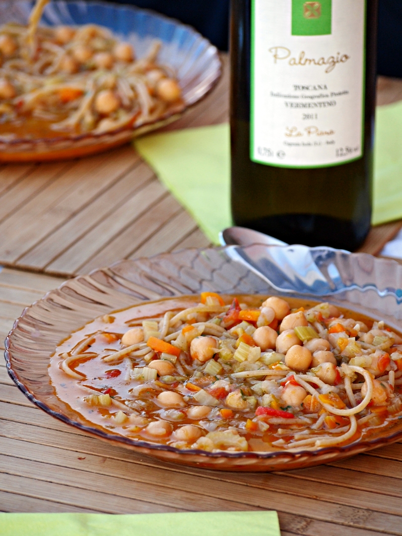 Chickpea soup with Palmazio, a white wine made with a grape variety native to Isola di Capraia.